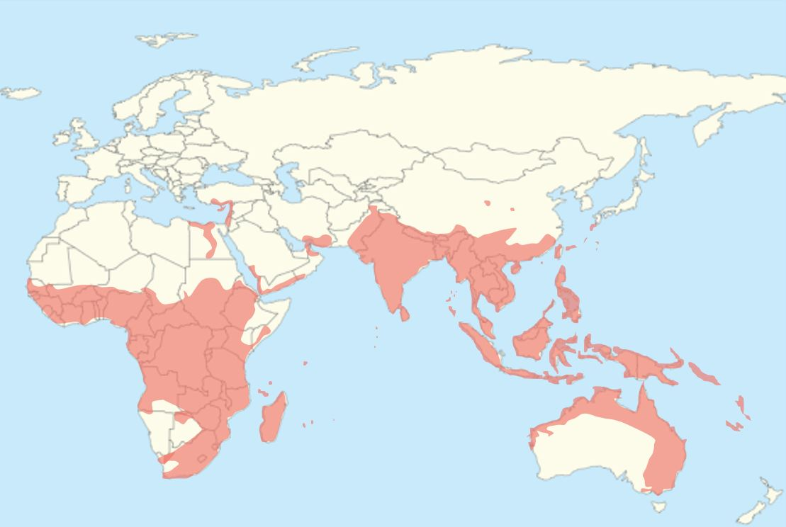 Range map of all megabats (Chiroptera:Pteropodidae) based on using pg. 14 and this map: File:Afro-Eurasia_location_map.svg